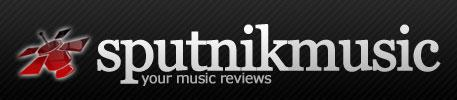 The logo for SputnikMusic.